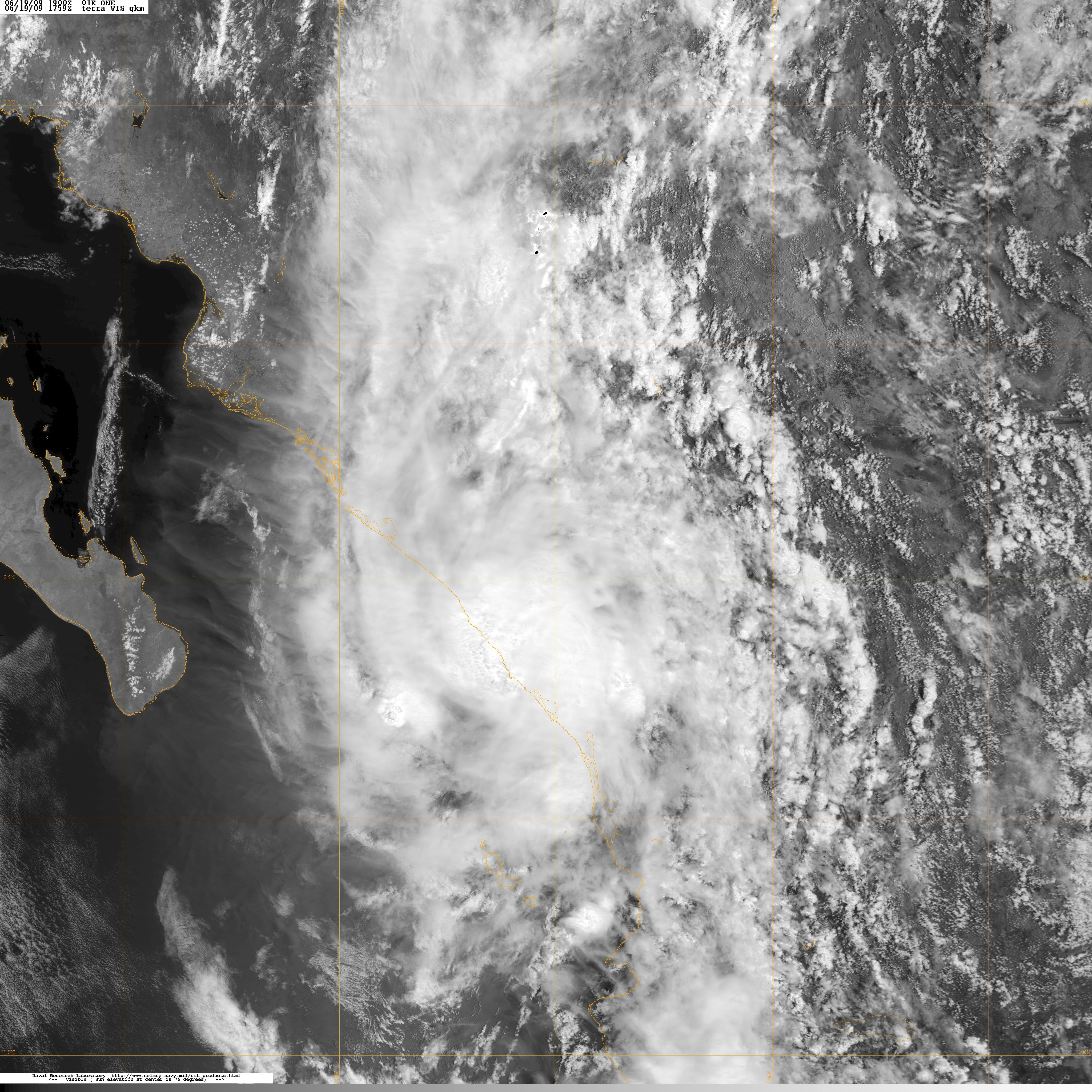 Remnants of TS 01E making landfall